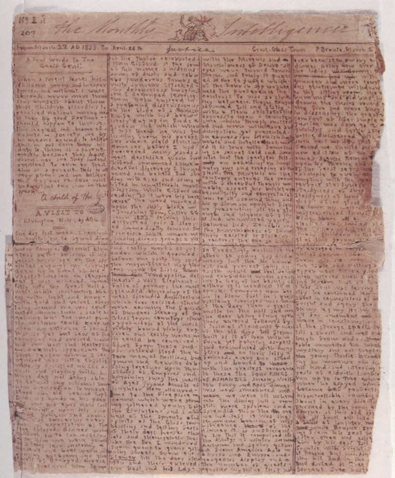 First page of "The Monthly Intelligencer" by Branwell Brontë (1833) (little books)